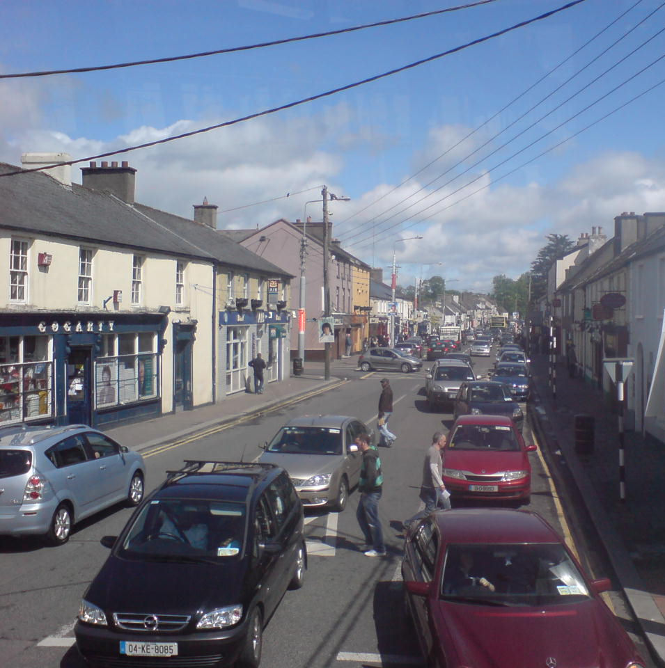 A photograph of celbridge mainstreet